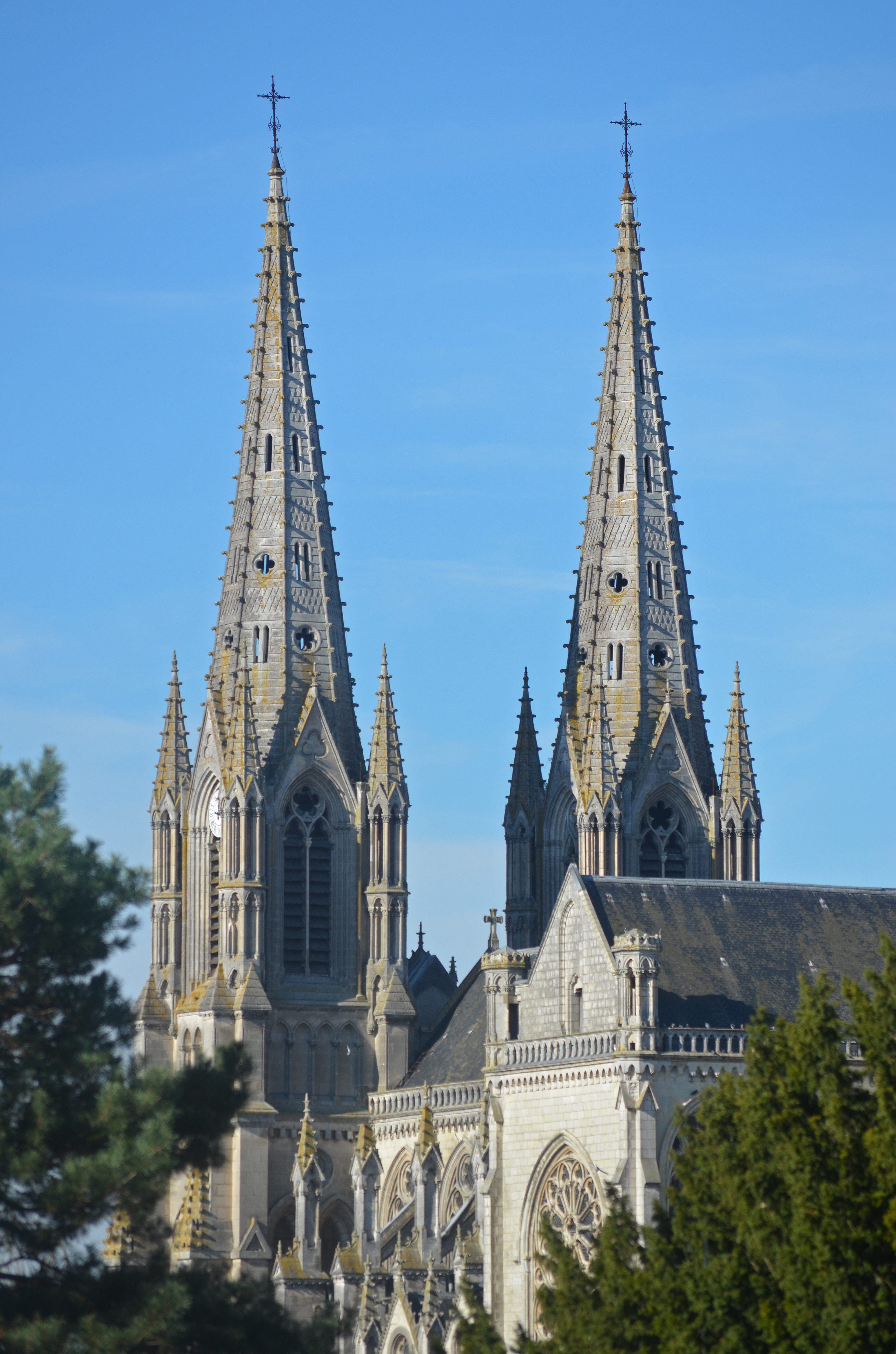 Notre-Dame church - Cholet (Maine-et-Loire, France)